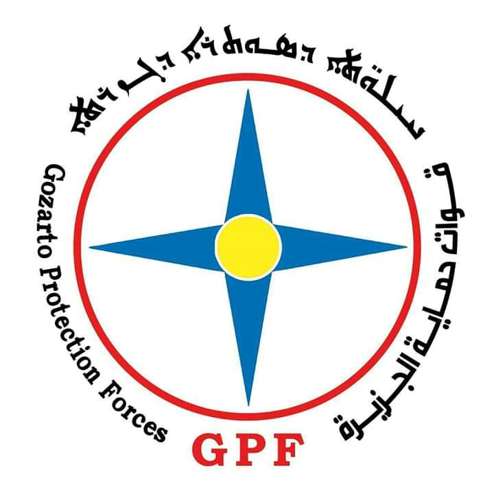 The logo of the Gozarto Protection Forces, also known as Sootoro.